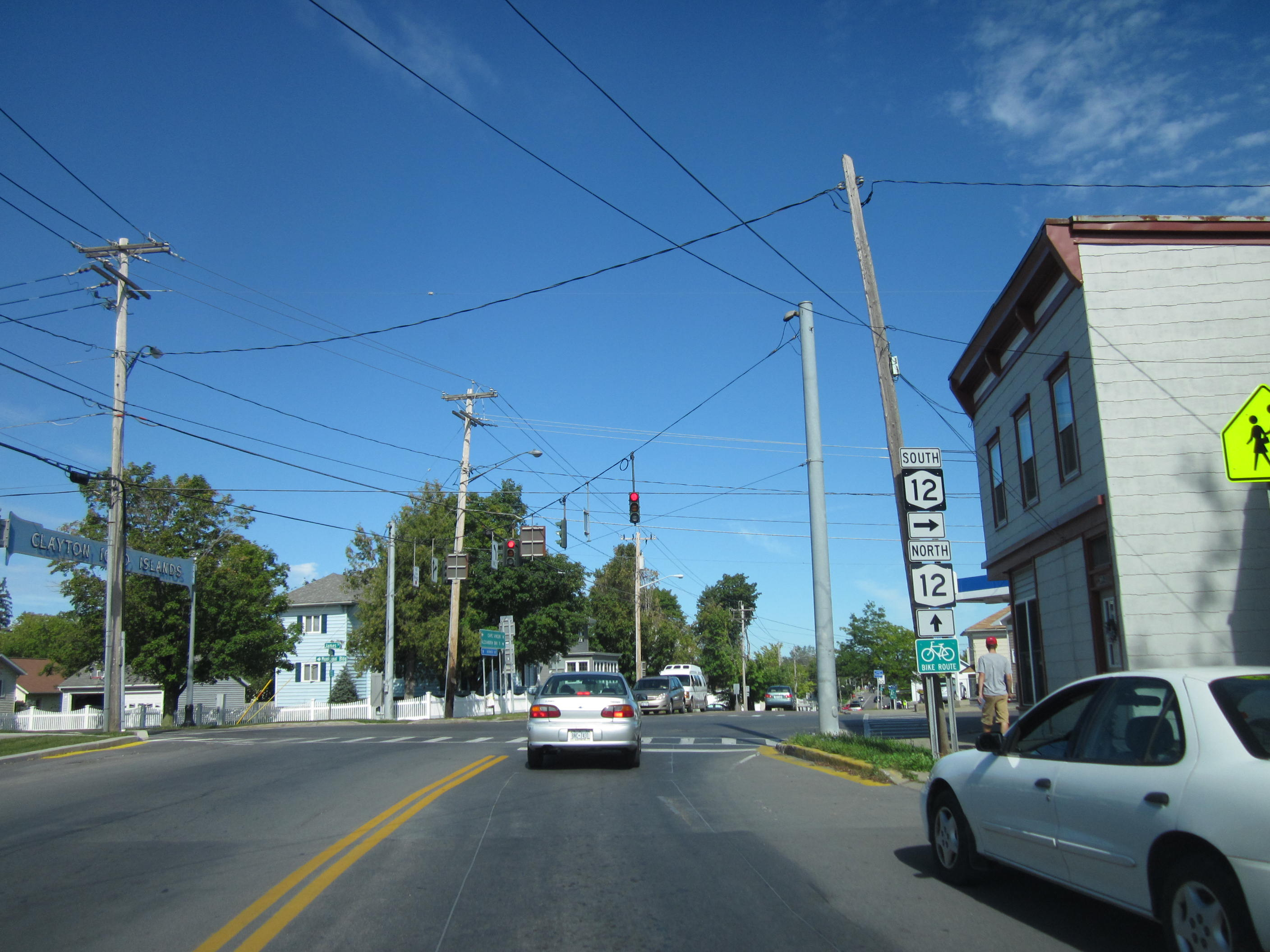 New York State Route 12E at its northern terminus, NY 12, in Clayton, New York.